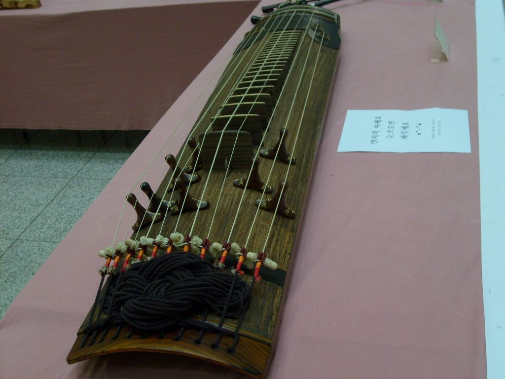 An 11-stringed geomungo, a traditional Korean zither, at an exhibit at Busan Station, Busan, South Korea